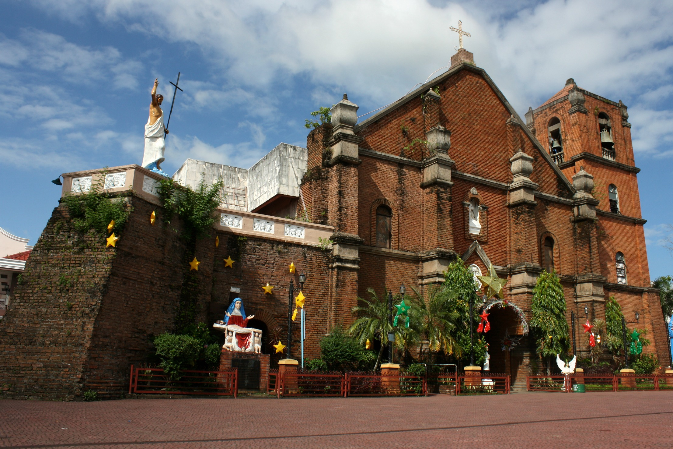 Parish of the Holy Cross in Nabua, Camarines Sur.